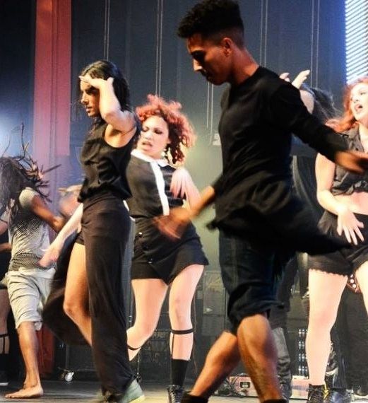 Brazilian artist Fernanda Abreu live in Amor Geral: O Show, 2016.